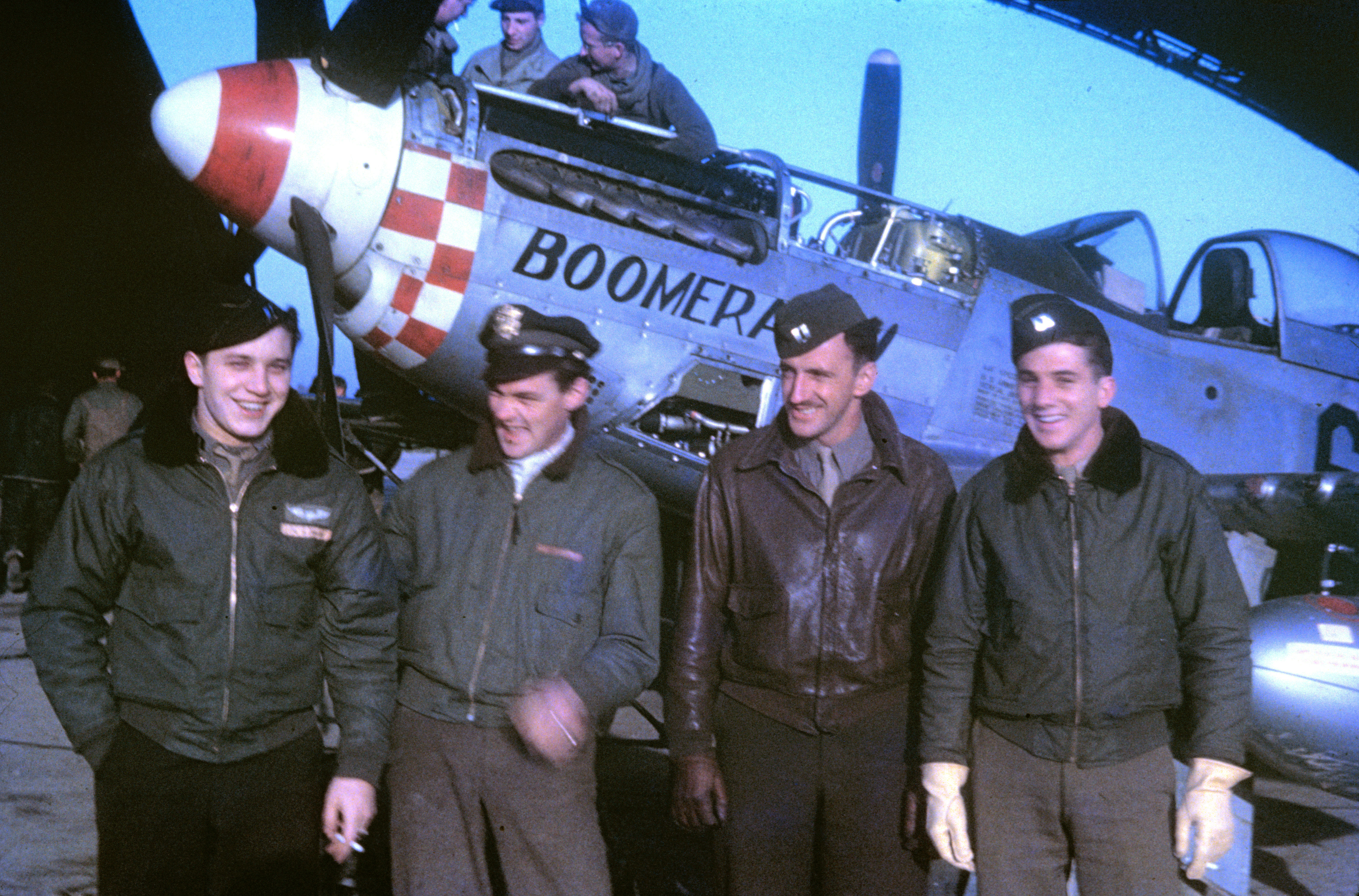 Captain George Hrico, Captain Evan M "Johnny" Johnson, Major Archie A Tower and Lieutenant Richard E Krauss of the 339th Fighter Group in front of a P-51 Mustang (6N-W, serial number 44-14705) nicknamed "Boomerang", assigned to Lieutenant Dick Thieme. Written on slide casing: 'Cpt Hrico, Johnson, Tower & Krauss, 505 FS, Archie Tower.'